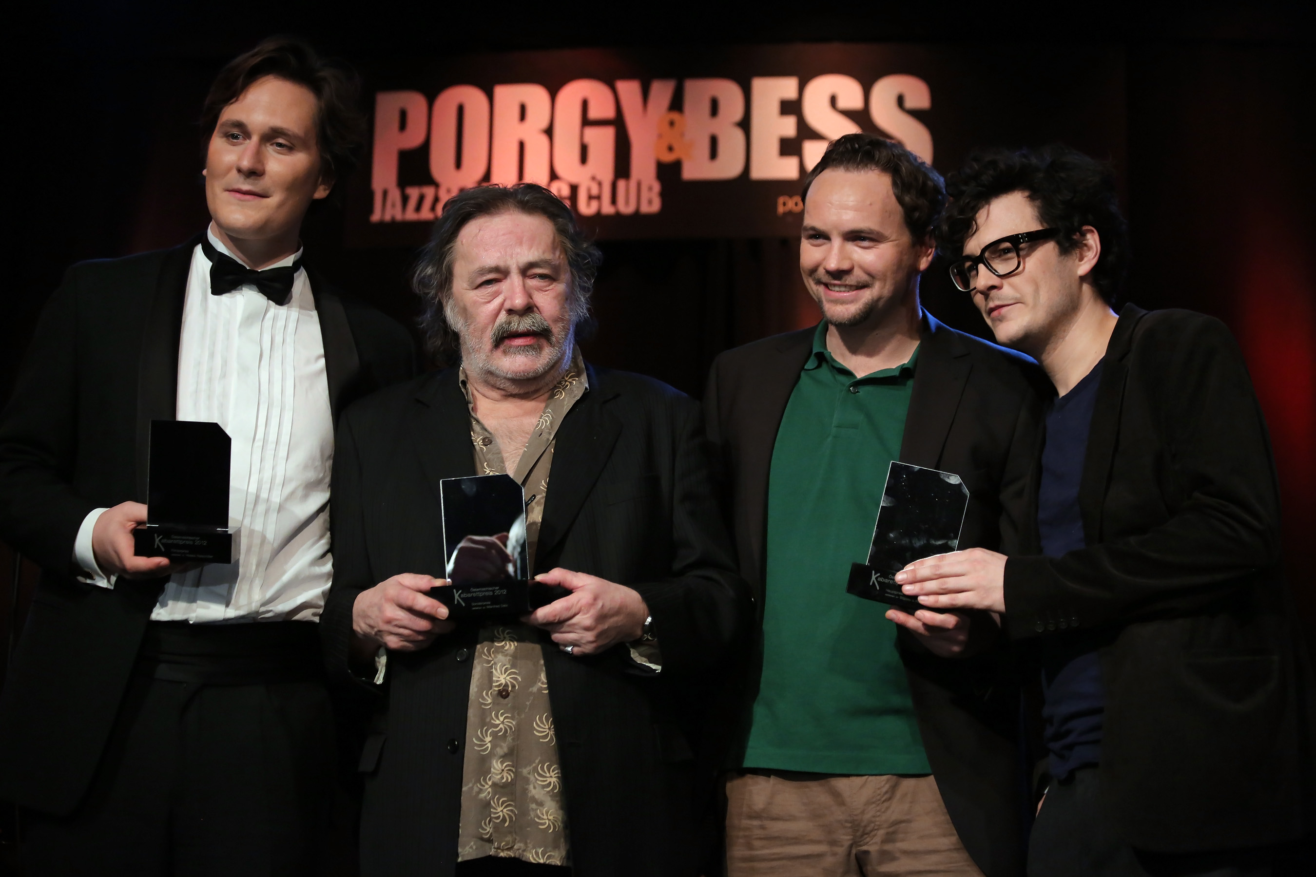 Austrian Cabaret Award 2012 (Porgy & Bess, Vienna).